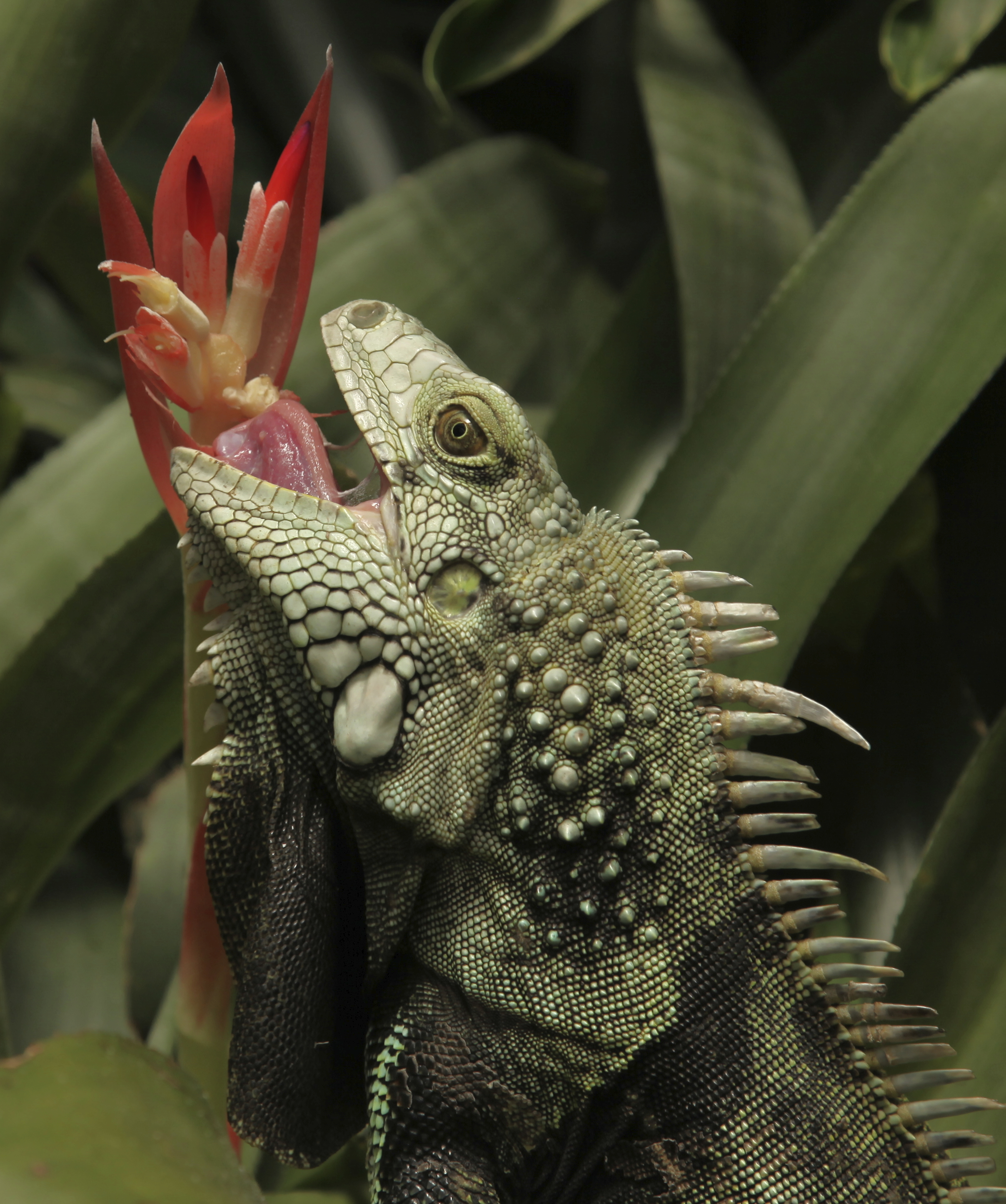 Iguana at Butterfly World, Stellenbosch, Western Cape Province, South Africa